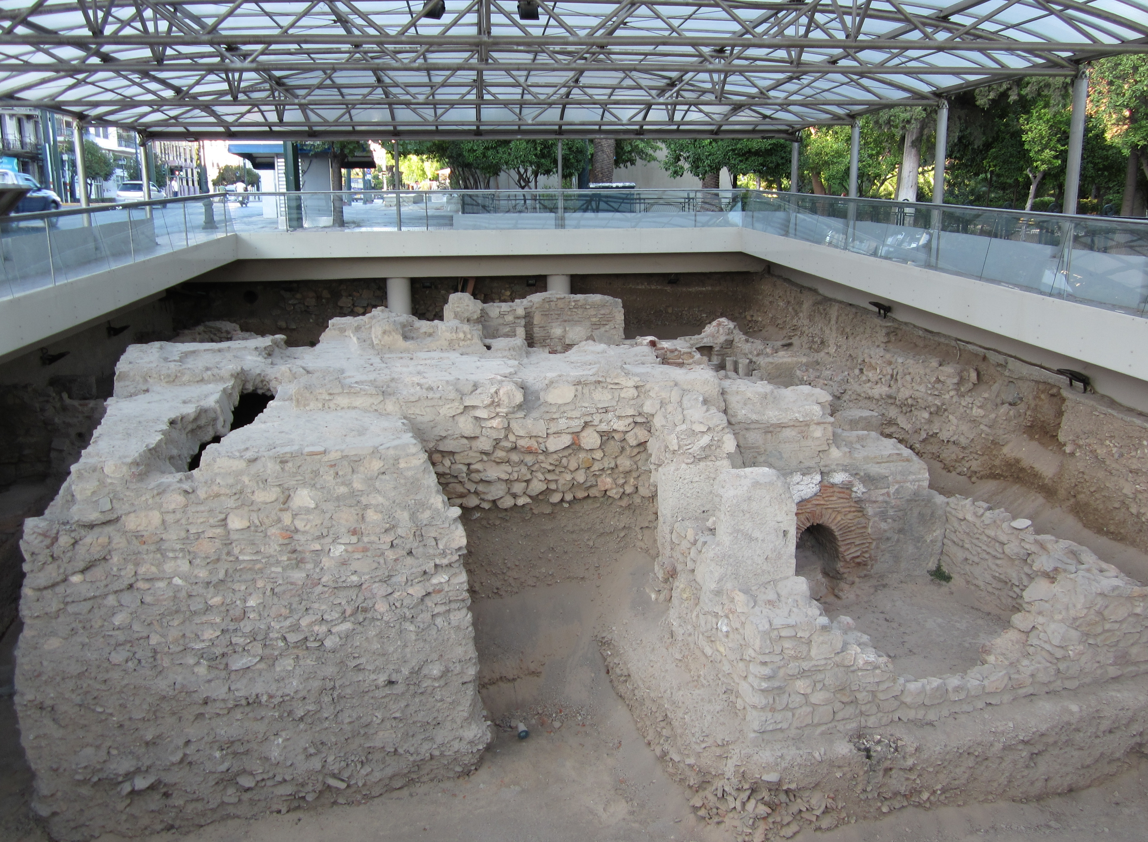 Archaeological site of Ancient Roman baths in Athens. Located inside the National Gardens near Zappeion, along Amalias Avenue.